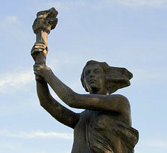 The Victims of Communism Memorial located in Washington, D.C. This photograph, is not a derivative work of a statue by Thomas Marsh. The original statue was created by the protesting students in Tianamen Square. Thomas Marsh created a bronze replica of that statue which is in San Francisco. The statue in Washington is a replica of that replica and does not qualify as an independent work of art subject to copyright.